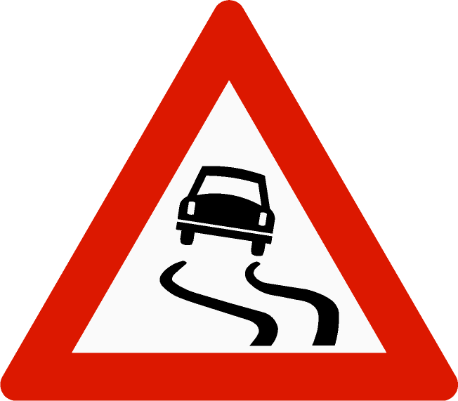 A Norwegian road sign